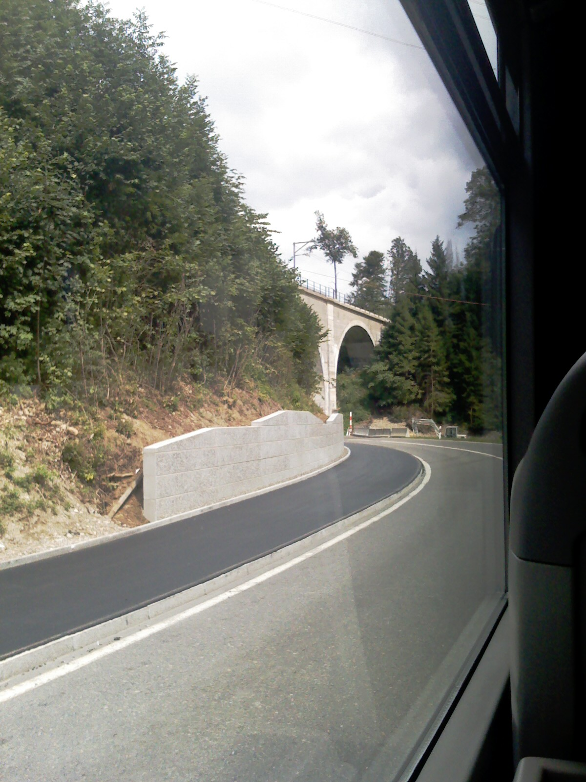 Viaduct of the Tösstalbahn over the river Jona